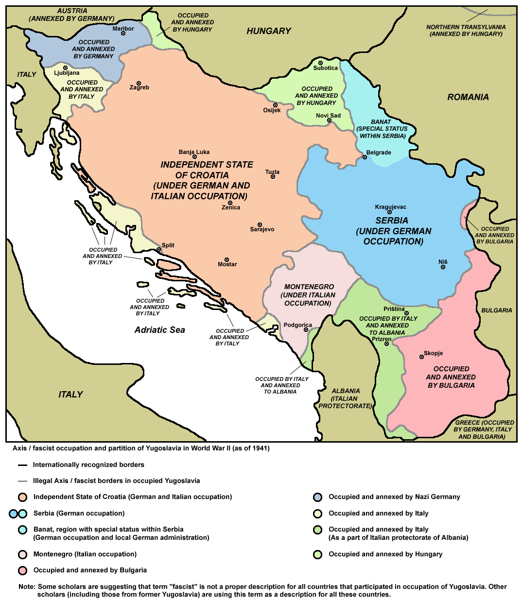 Axis / Fascist occupation and partition of Yugoslavia in World War II (as of 1941). Srpskohrvatski / српскохрватски: Fašistička okupacija i rasparčavanje Jugoslavije u Drugom svetskom ratu (1941. godine).